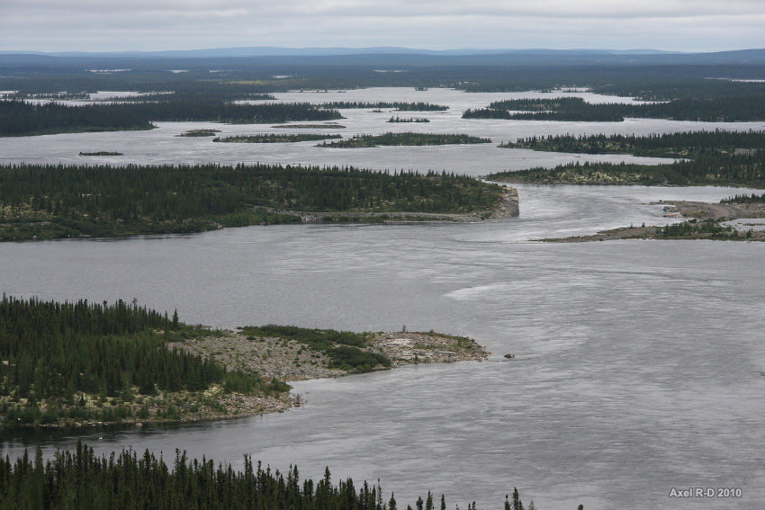 The Caniapiscau-Laforge diversion, downstream from the Brisay generating station.